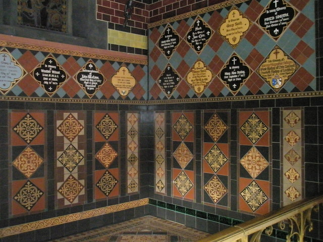 Tiles within Jackfield Tile Museum (9)